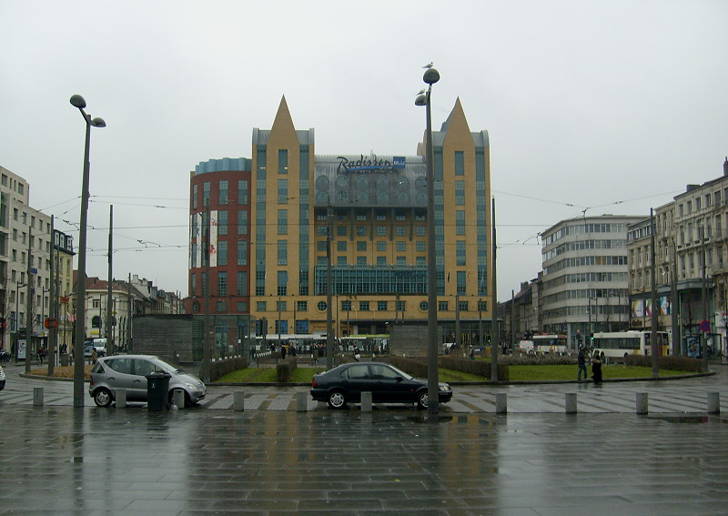 Astridplein in Antwerp, Belgium.